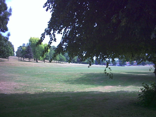 Duppas Hill Recreation Ground. Between Duppas Hill Road (A232) and Cooper Road.